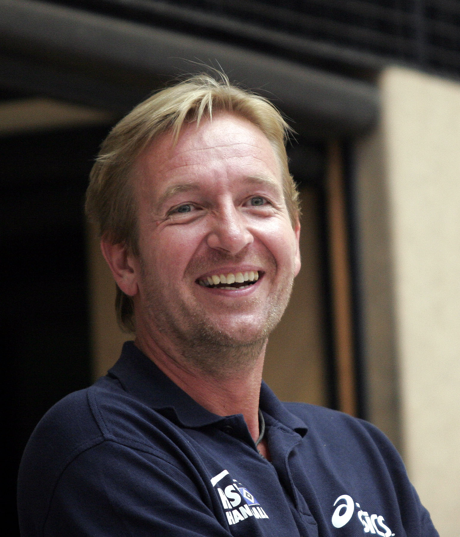 Martin Schwalb, German handball coach from HSV Hamburg, during the Schlecker Cup 2007 in Ehingen (Germany)